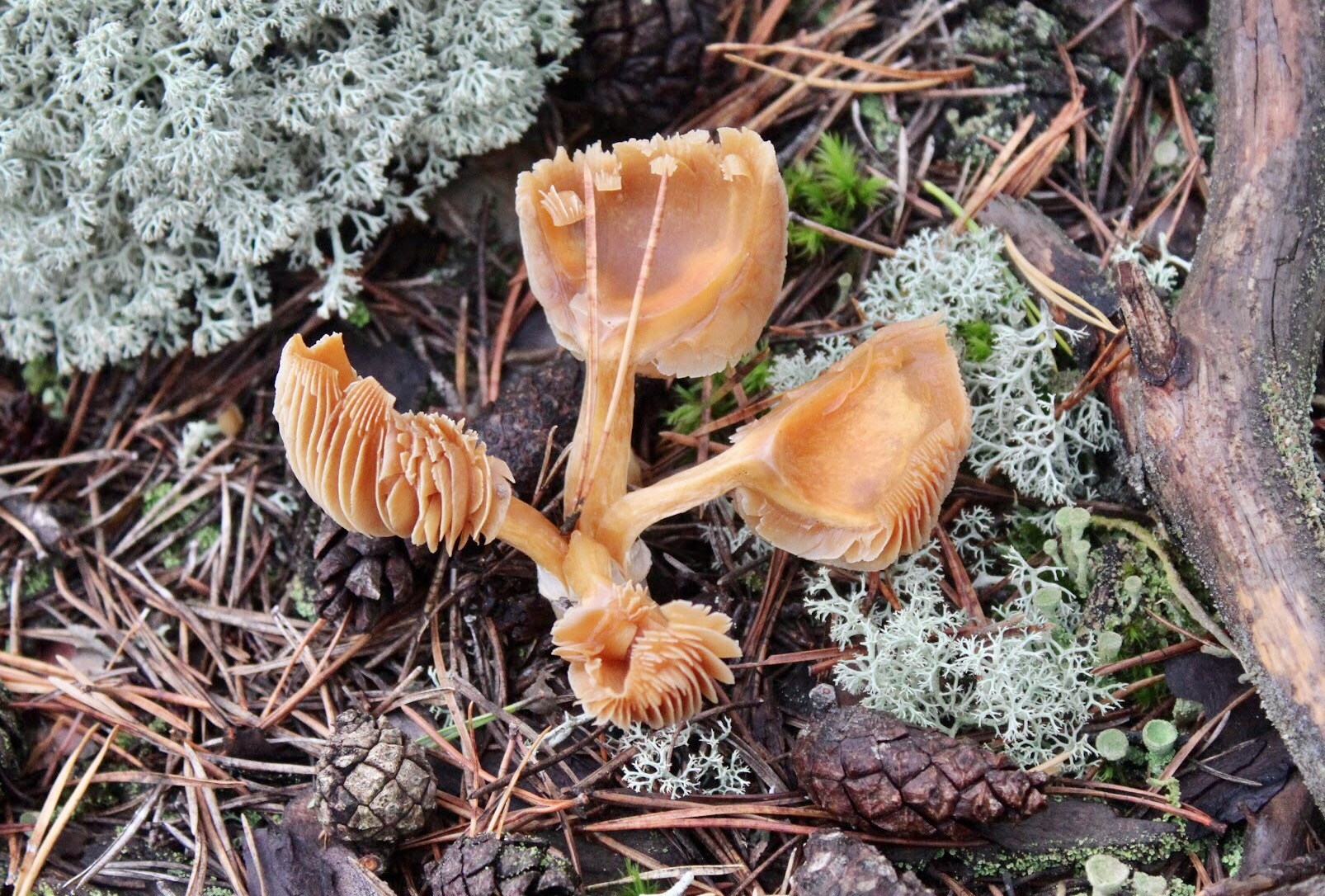 An old Cortinarius caperatus in Latvia.